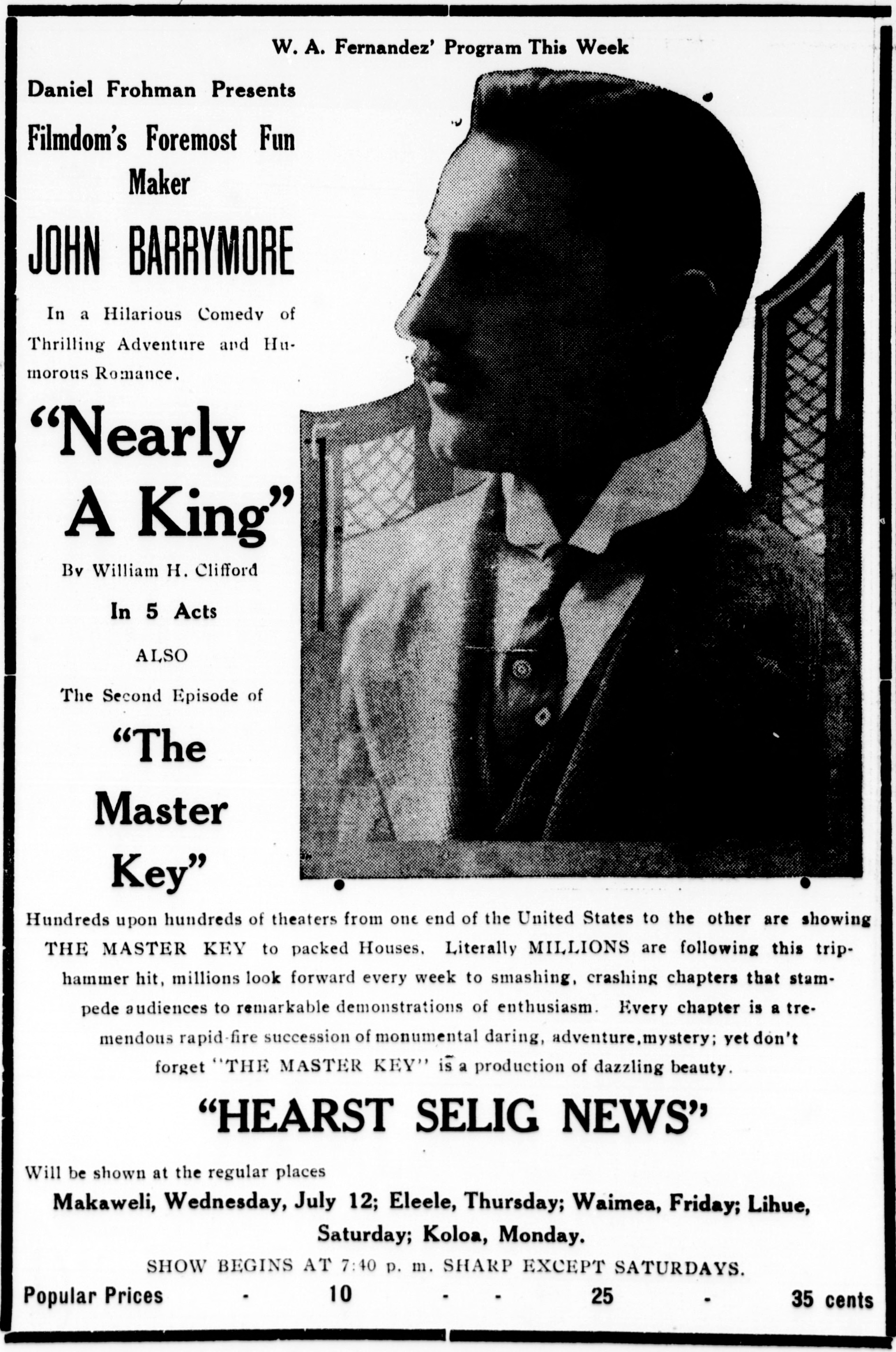 Nearly a King is a 1916 silent film romantic comedy produced by Famous Players Film Company and distributed by Paramount Pictures. This is a newspaper advert.